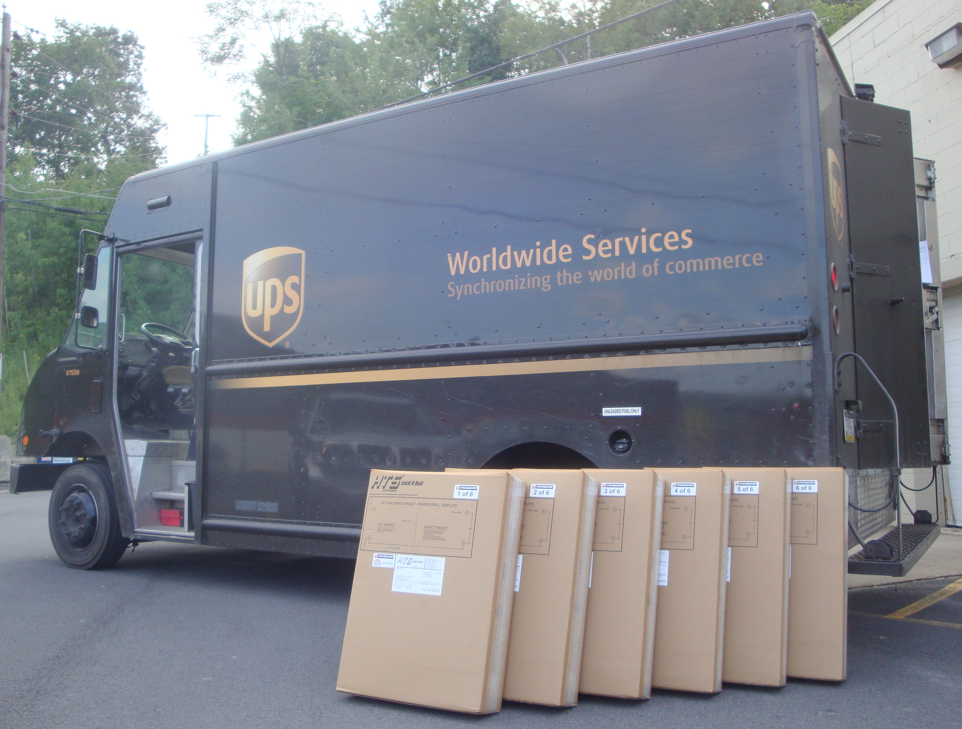 United Parcel Service package car prepares for HTS Systems customer pick-up in Pennsylvania.